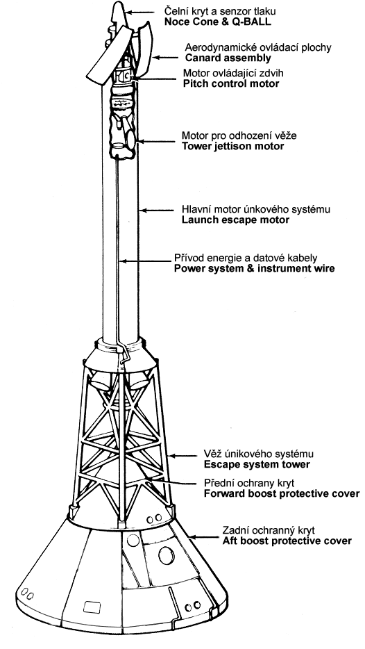 Line drawing of Apollo Command/Service Module image from NASA website original upload at en.wikipedia by User:Audin "APOLLO LAUNCH ESCAPE SYSTEM"